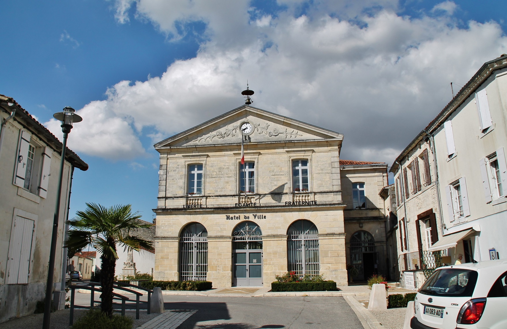 Hotel-de-Ville